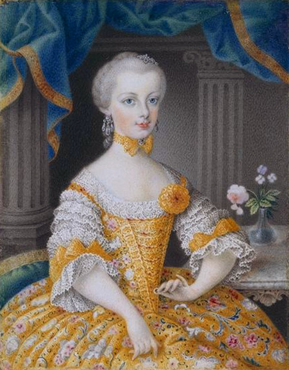 Portrait of Archduchess Maria Josepha of Austria (1751-1767)